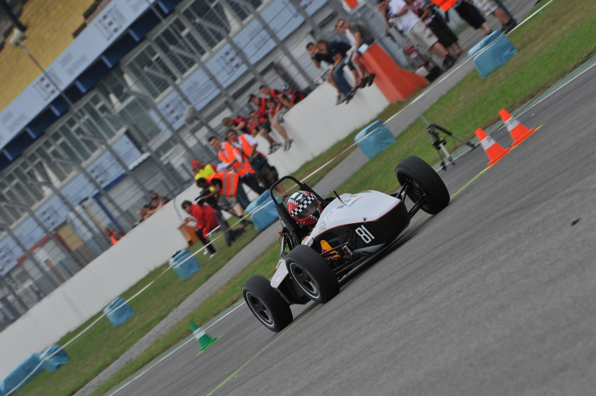 Joanneum Racing during FSG 2009's Acceleration event